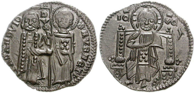 Italy, Venice. Francesco Dandolo. 1328-1339. AR Grosso (20mm, 2.18 g, 5h). Doge and St. Mark standing facing, holding banner between them Christ enthroned facing. Paolucci 2. Near VF, attractive dark toning.